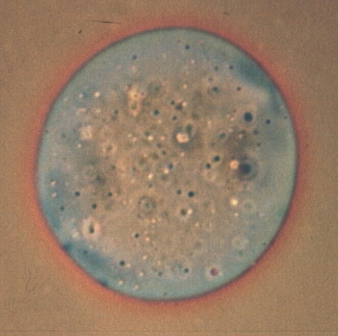 This is the image of a glass sphere mounting in a medium that matches its refractive index at a wavelength of 589 nanometers viewed with positive phase contrast.